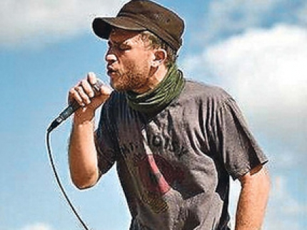 its niceeeeee